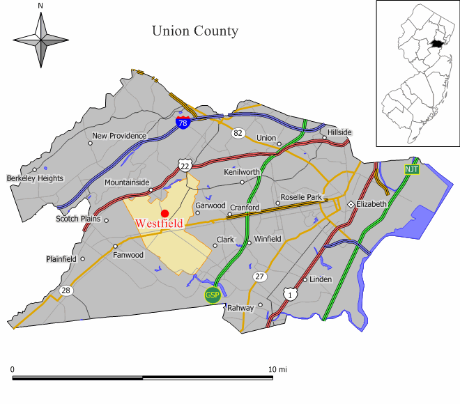 Source: Jim Irwin Original work by Jim Irwin, December 2005.